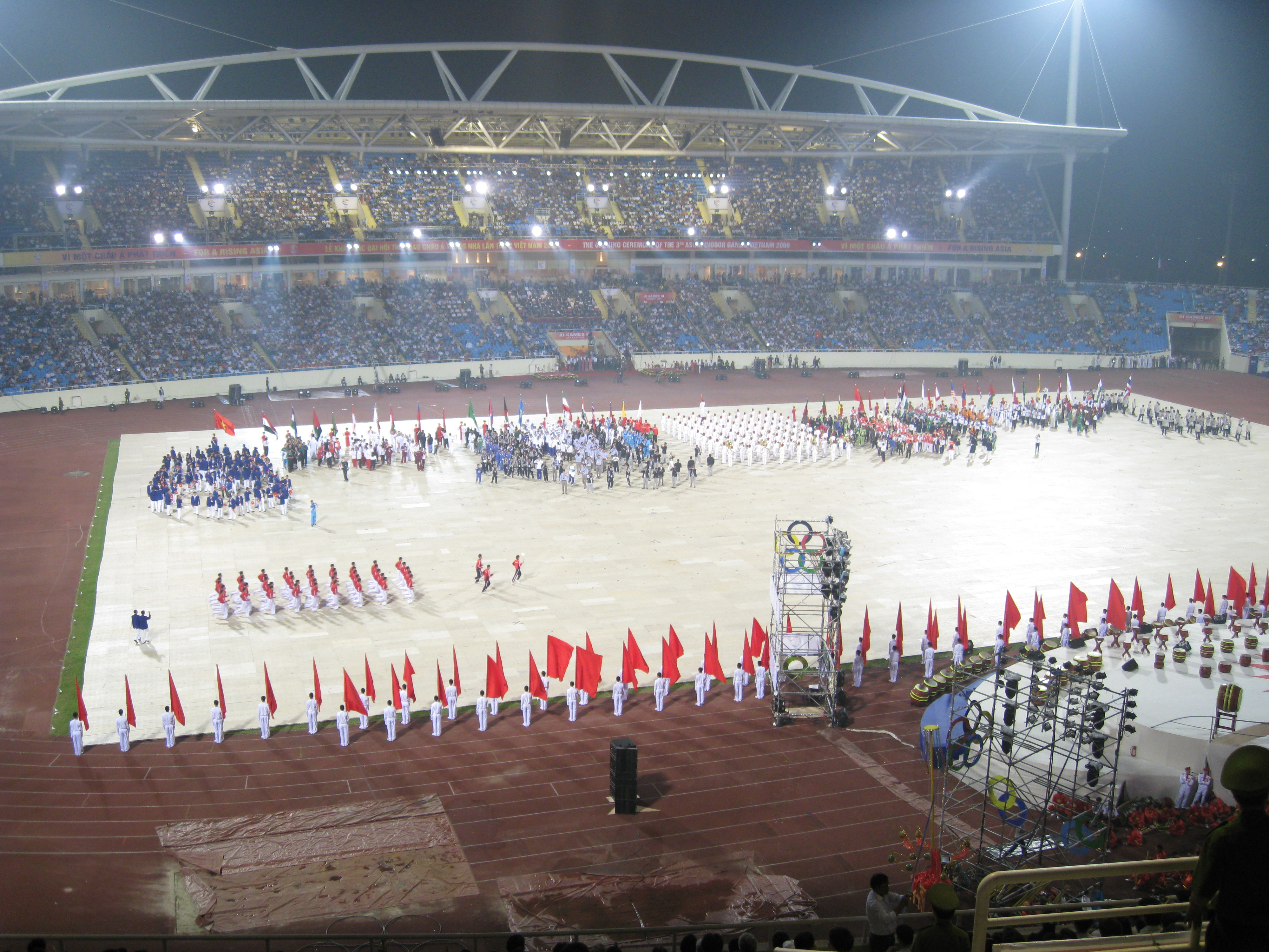 AIG 2009 opening ceremony in My Dinh Stadium, Hanoi.